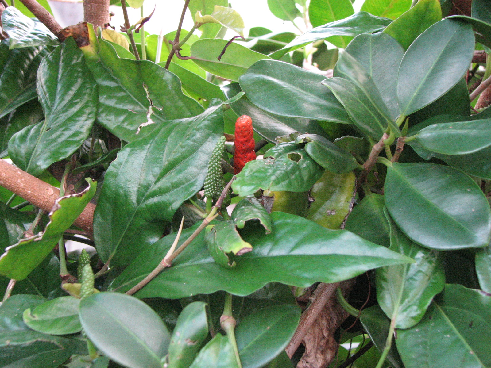 Piper retrofractum at Iriomote is. Okinawa, Japan.(ヒハツモドキ・西表島)